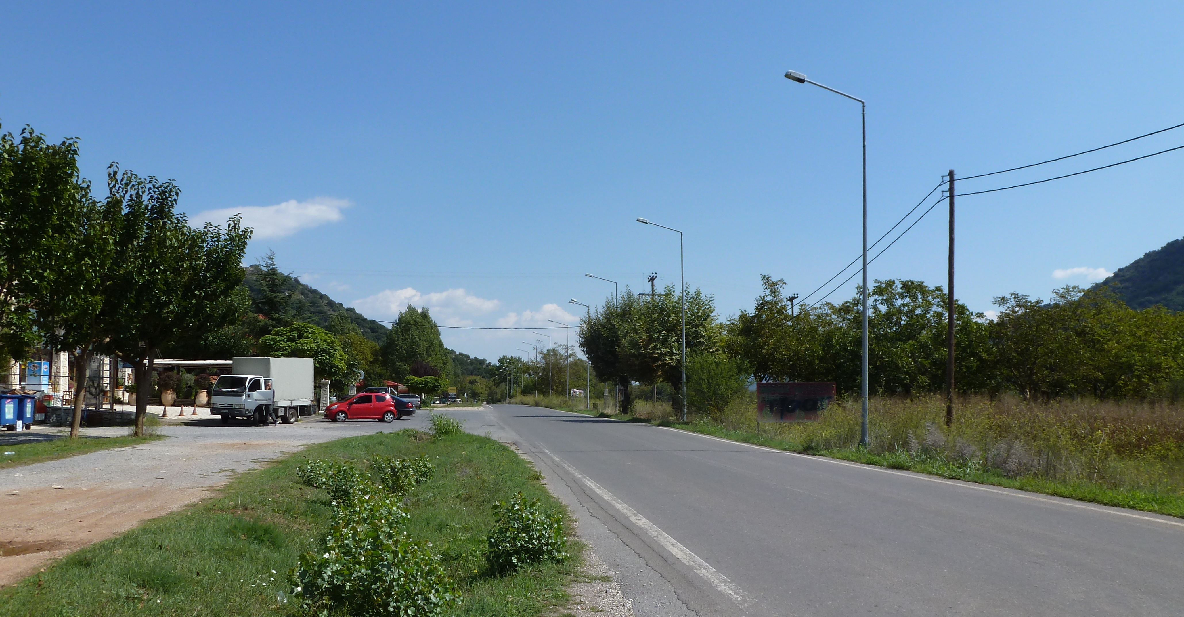 View of the Patra-Tripoli National Road passing through the new village of Paos, Achaia, Greece.